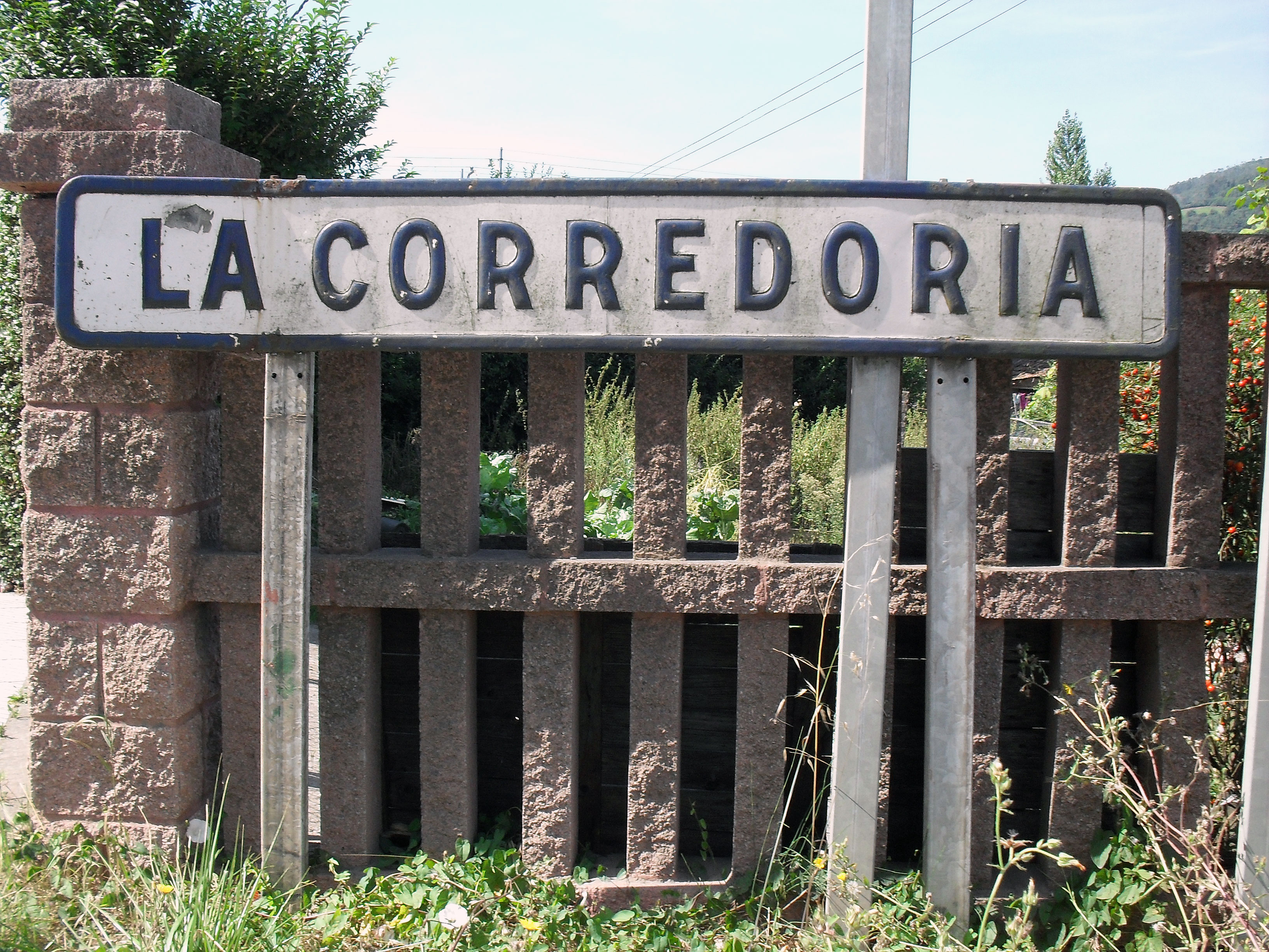 Road sign showing the poblation name of La Corredoria at AS-266, heading Oviedo